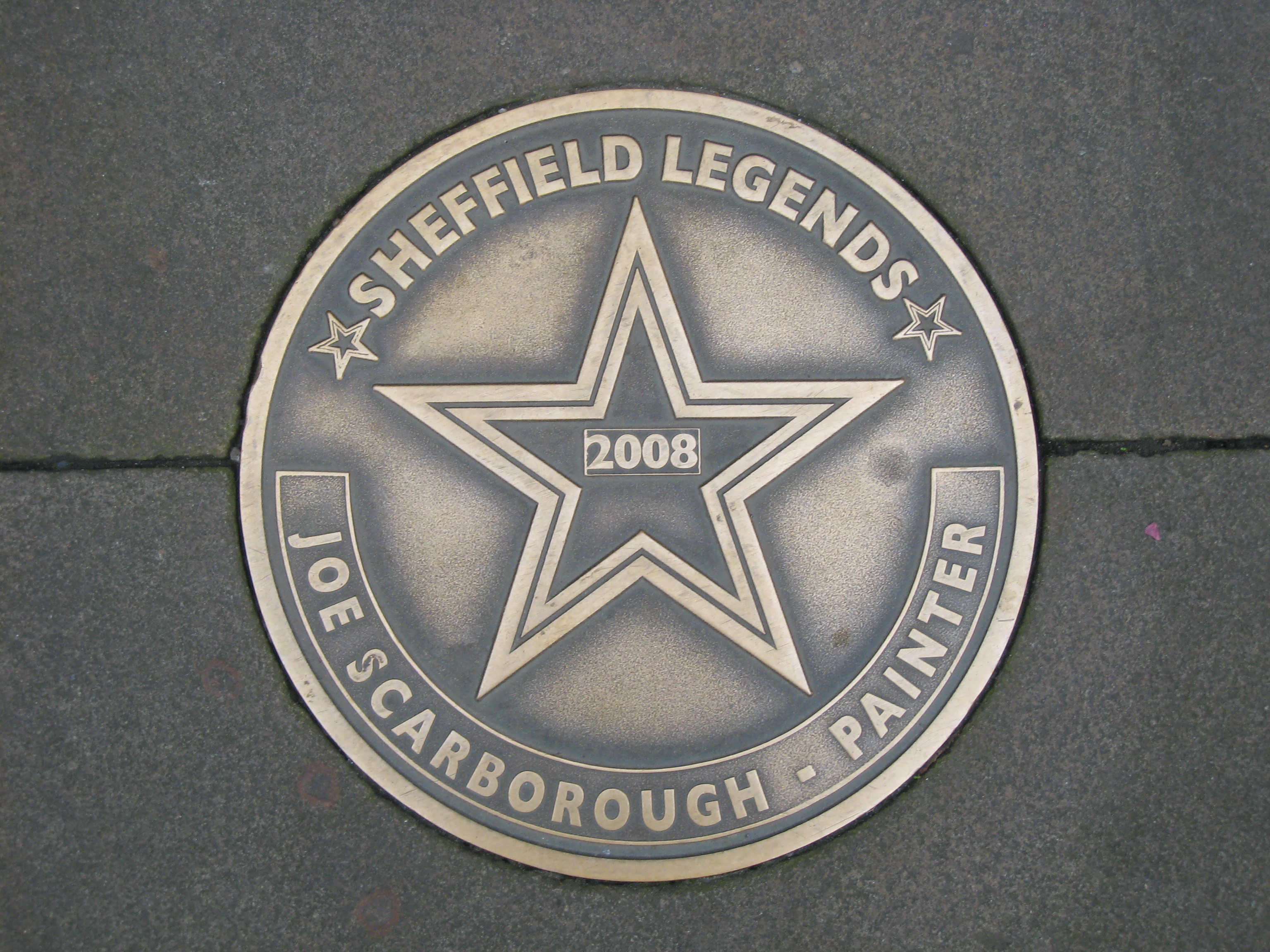 Commemorative star in the pavement outside Sheffield Town Hall: a "walk of fame" for people associated with the city. Joe Scarborough.